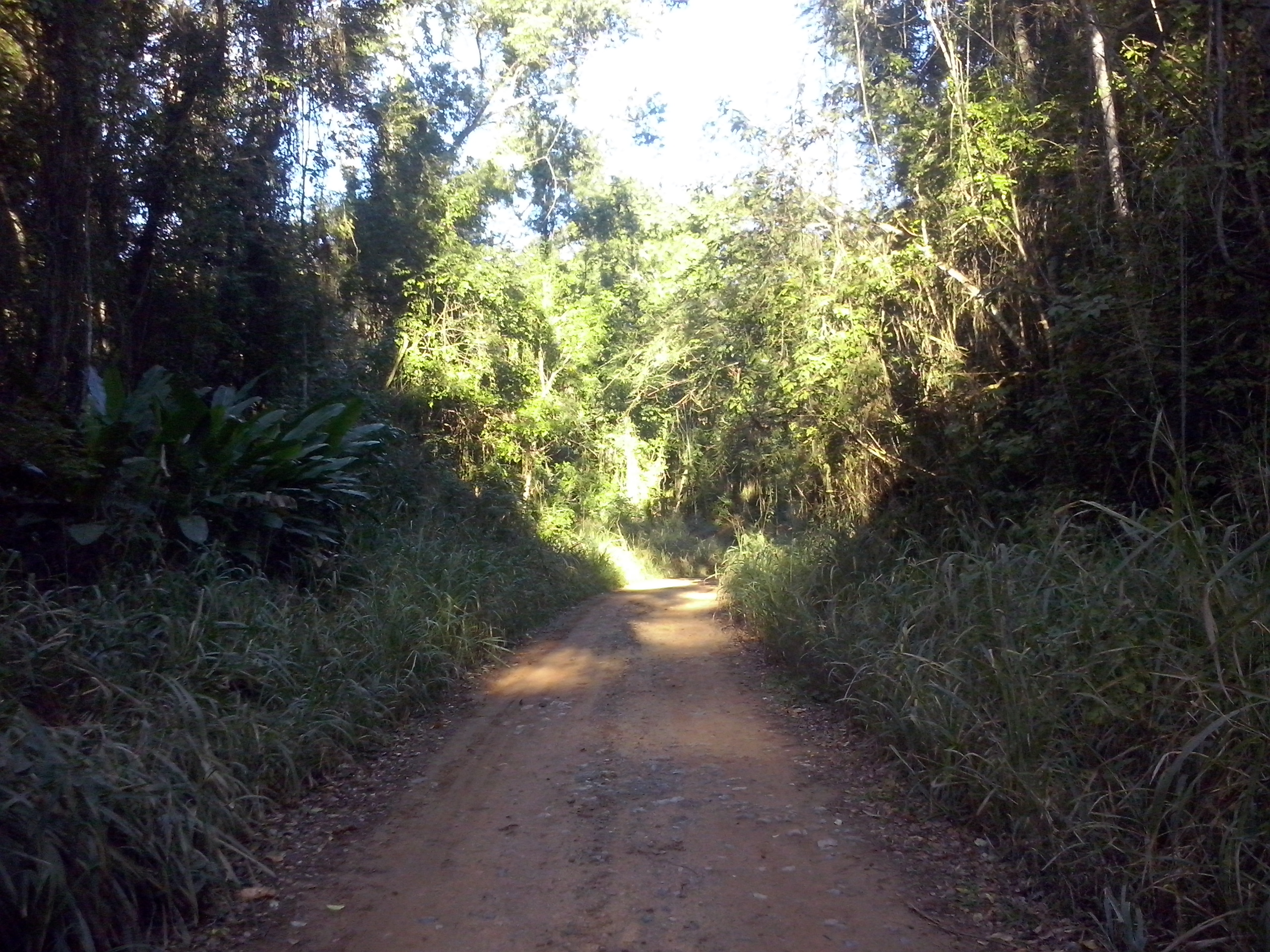 Rural road in the interior of the Parque Estadual do Rio Doce (PERD), in Marliéria, Minas Gerais, Brazil.